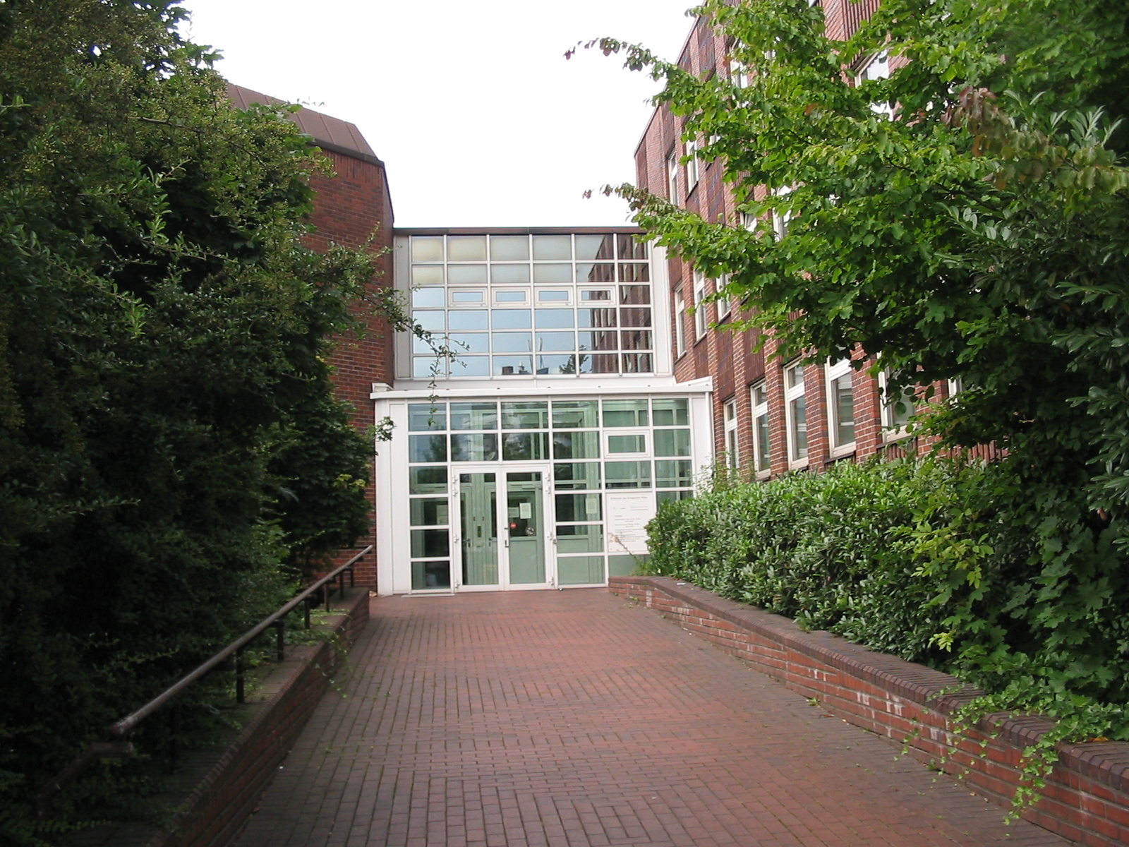 Amtsgericht Witten (Local Court), new building